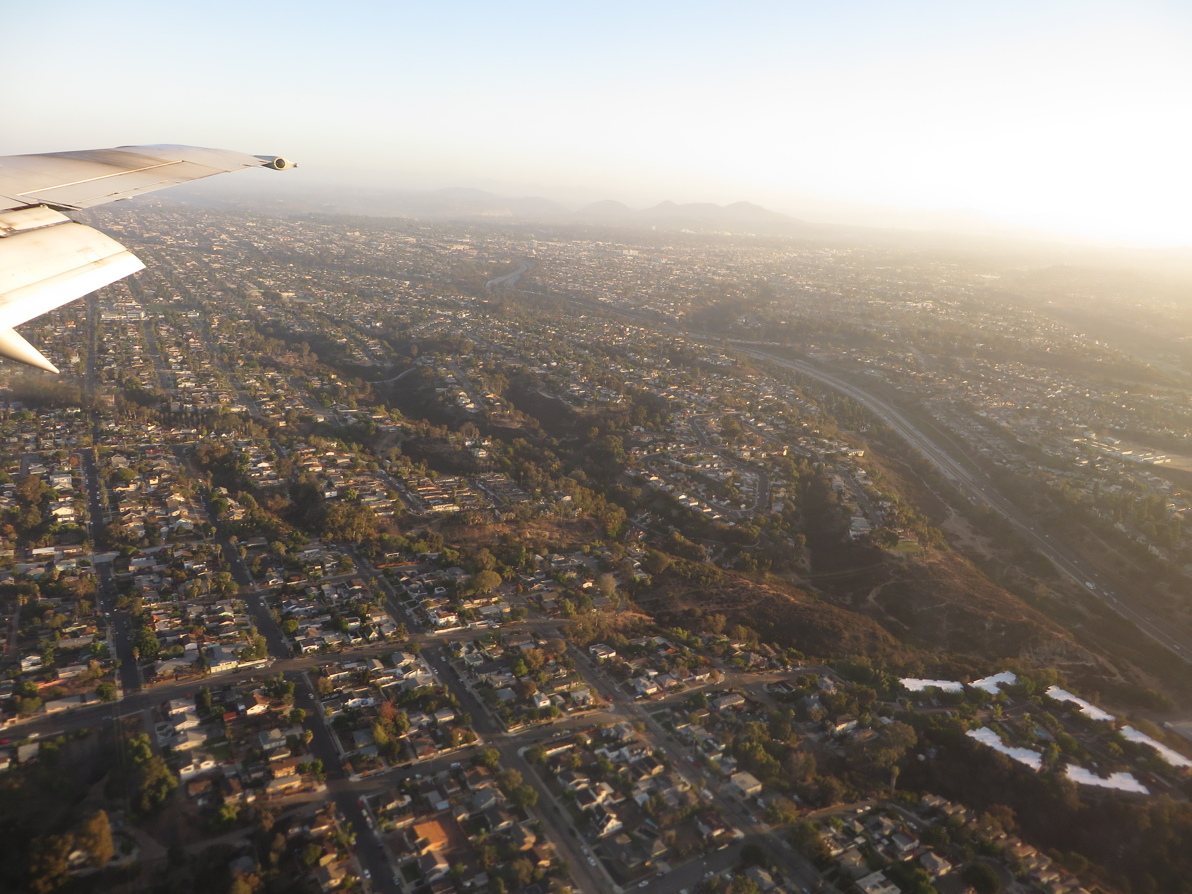 South Park is a neighborhood in San Diego, California located east of Balboa Park, and borne out of its southern neighbor Golden Hill. South Park is also north of Grant Hill and south of North Park, the boundary being Juniper Street. First registered as a subdivision in 1870, the South Park Addition was too far from Downtown San Diego to attract development until its purchase in 1905 by E. Bartlett Webster. The Bartlett Estate Company put in sidewalks, water, sewer, electricity, and other amenities and began selling lots, positioning the neighborhood as a "high-class residential district". Further development was spurred by the 1906 opening of the South Park and East Side Railway, an electric streetcar line linking South Park with Downtown San Diego and making South Park the city's first streetcar suburb. In the 1910s, Golden Hill and the area now referred to as South Park became one of the many San Diego neighborhoods connected by the Class 1 streetcars and an extensive San Diego public transit system that was inspired by the Panama-California Exposition of 1915 and built by John D. Spreckels. These streetcars became a fixture of this neighborhood until their retirement in 1949, when the number 2 streetcar was replaced with the number 2 bus. South Park is now considered one of the major historic urban communities of San Diego and has long been proposed as a registered historic district. Other historically significant neighborhoods not far from South Park include Burlingame, Golden Hill and Sherman Heights.